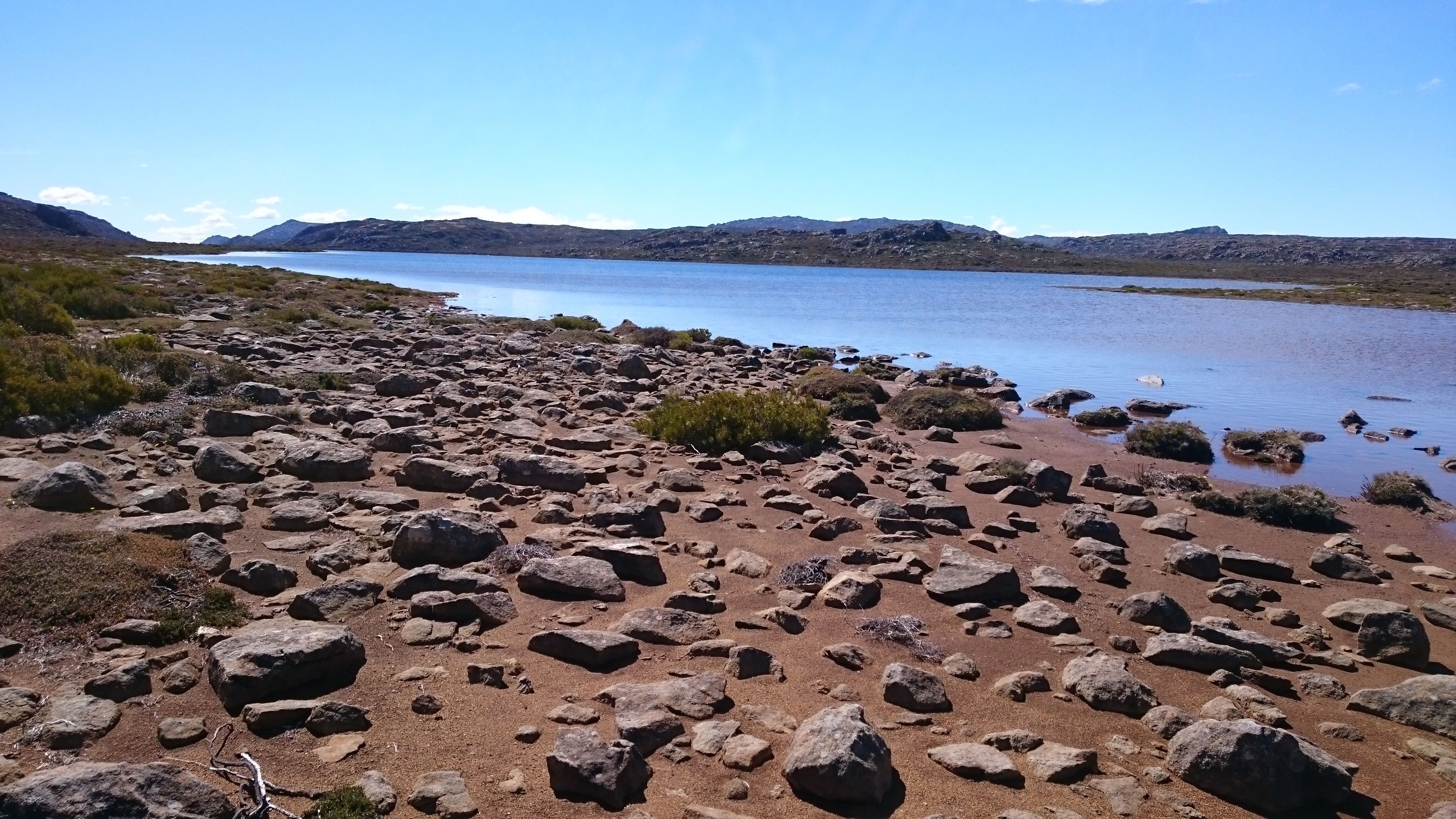 Lake Youl looking north-west